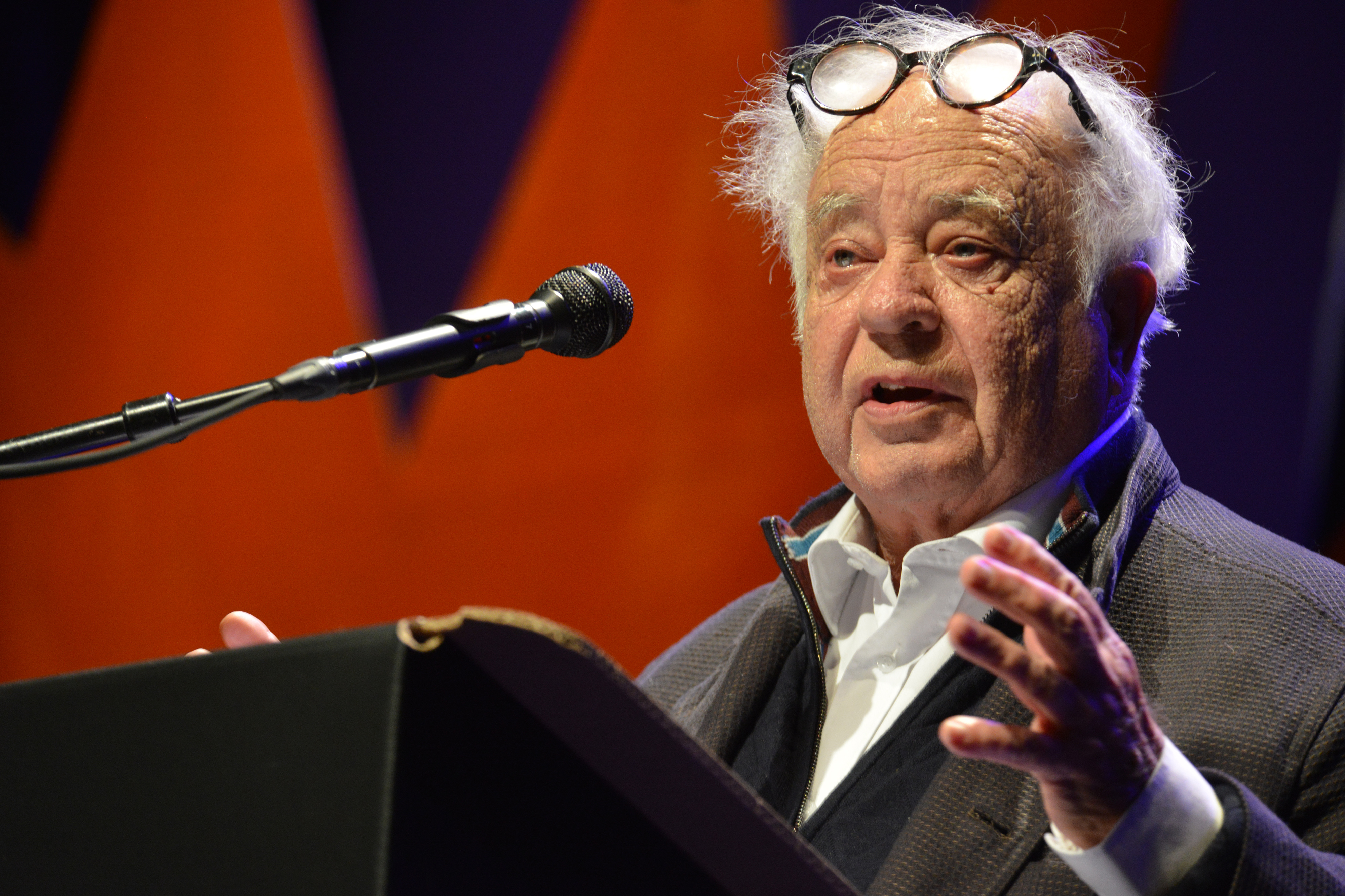 French writer Pierre Christin awarded by the Goscinny prize during Angoulême International Comics Festival 2019.